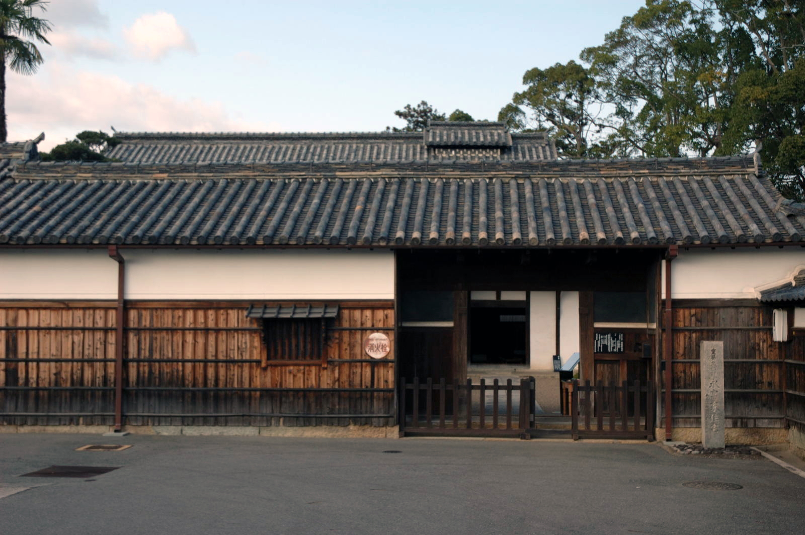 The Nagatomi house enterance